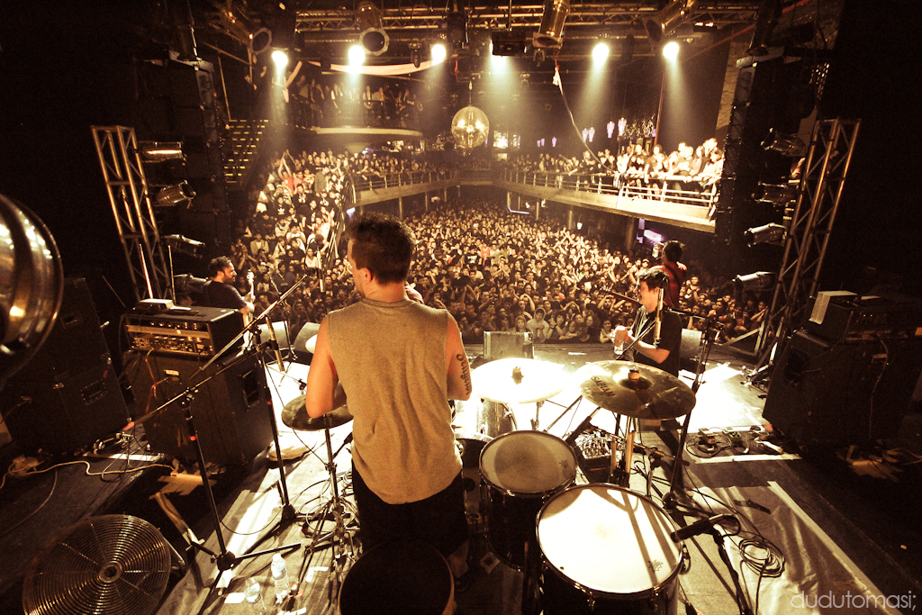 Backstage